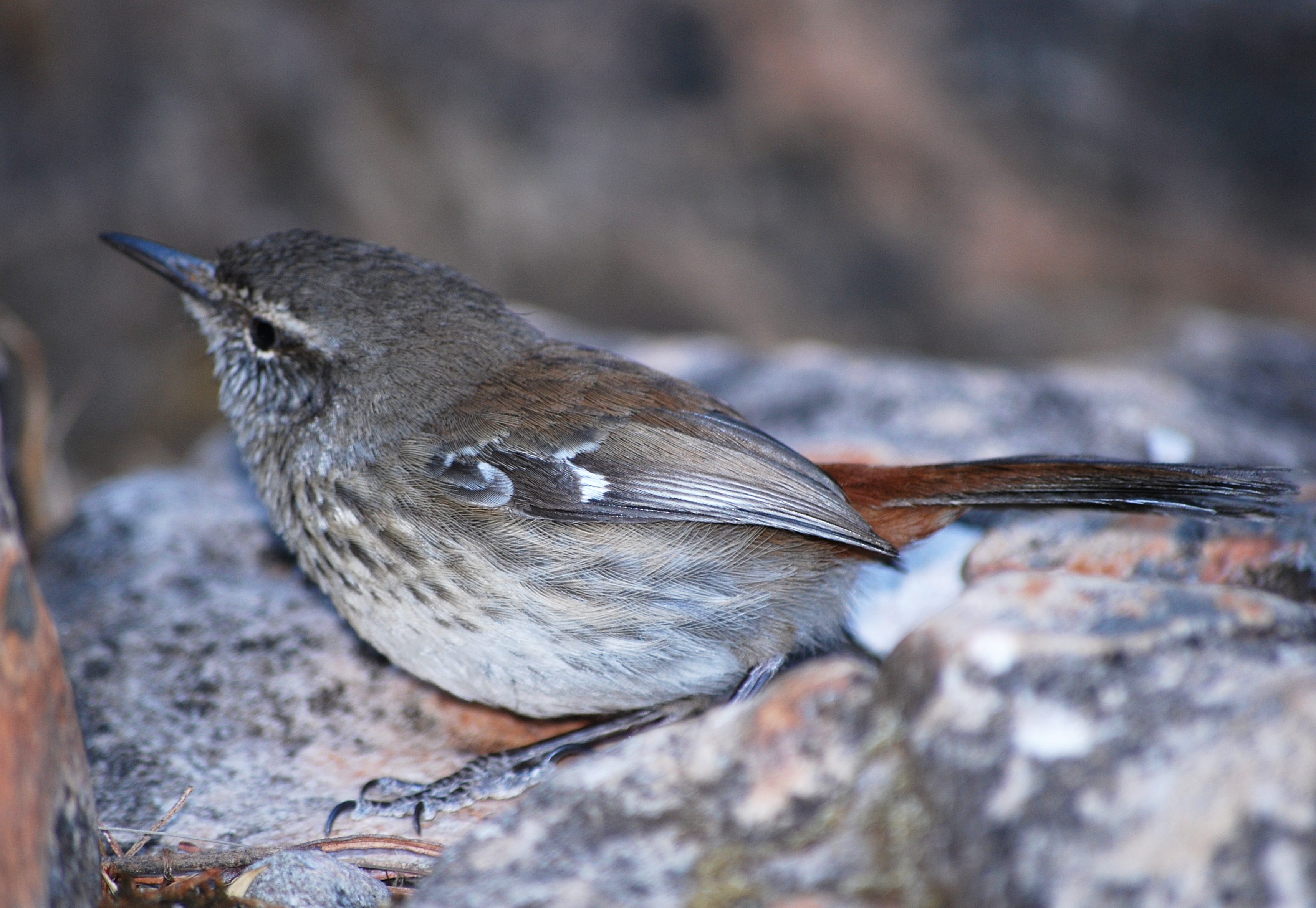 Shy Heathwren Calamanthus cautus (syn. Hylacola cauta). Southern Wilpena Pound, Flinders Ranges, South Australia